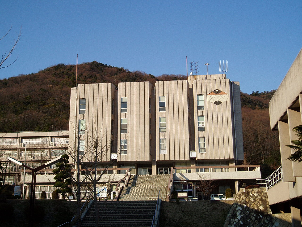 The main building of Himeji-Shosha-Campus, University of Hyogo. Located in Himeji, Hyogo Prefecture, Japan.